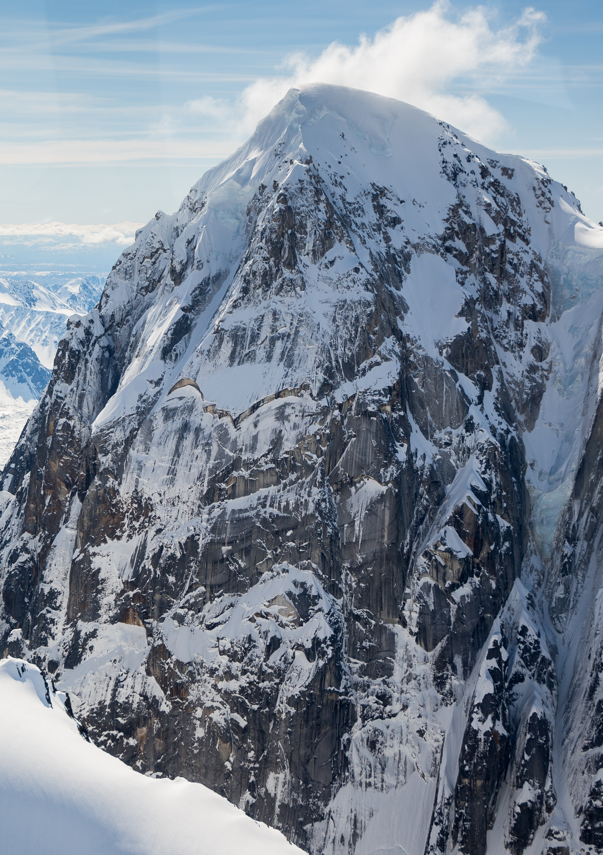 north side of Mt. Bradley in Alaska Range